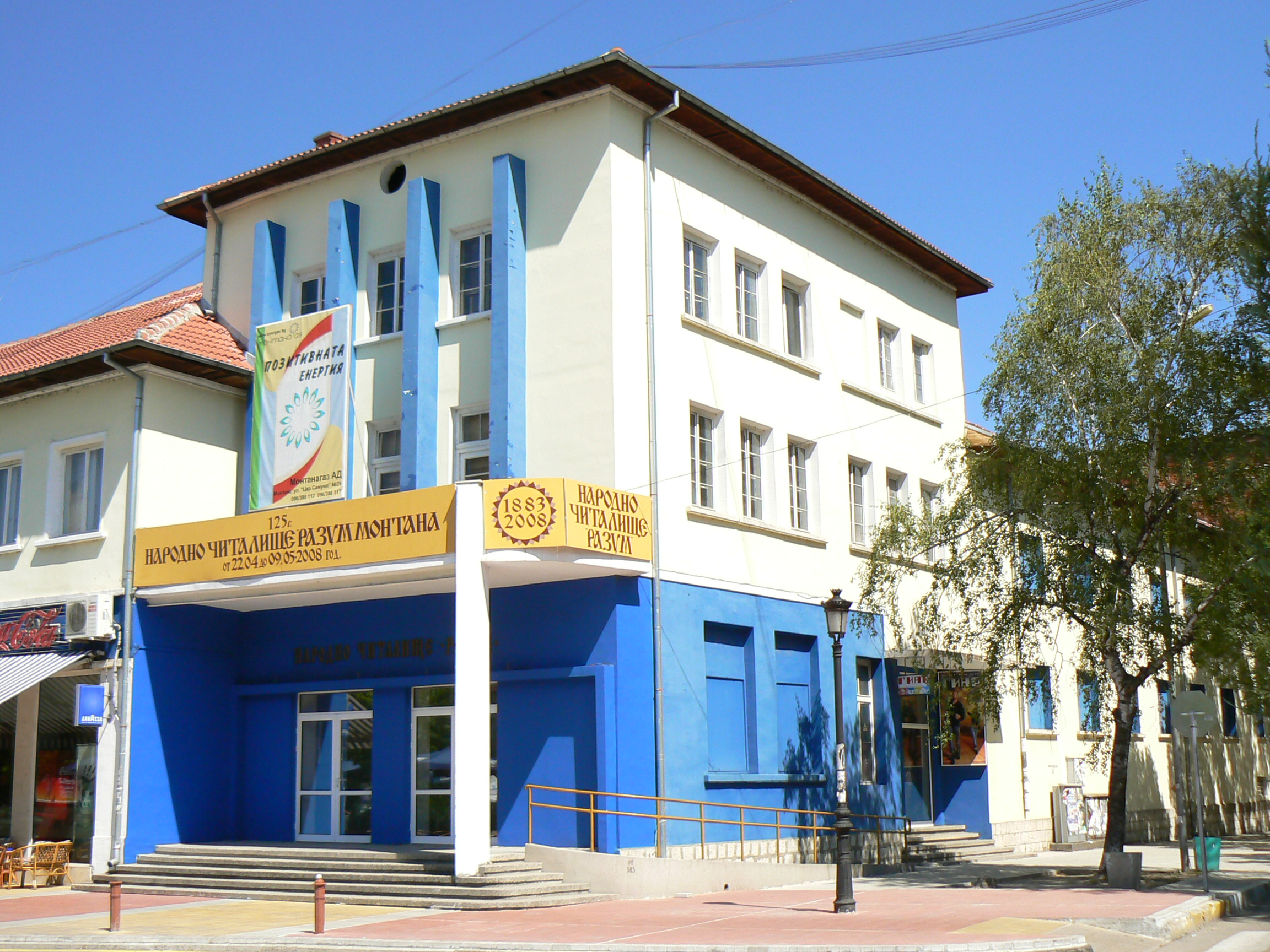 Library "Razum" in Montana, Bulgaria